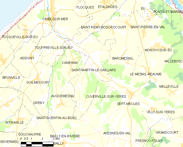 Map of French municipality Saint-Martin-le-Gaillard